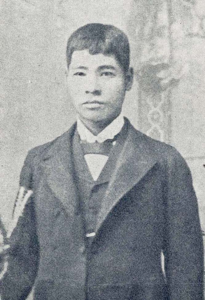 Ōtsubo Yoichi 大坪與一